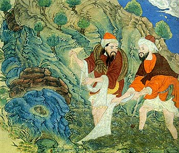 "The Fish and the Fisherman" Kalila wa Dimna: An Animal Allegory of the Mongol Court, Jill Sanchia Cowen. (New York: Oxford University Press, 1989), color plate XI.